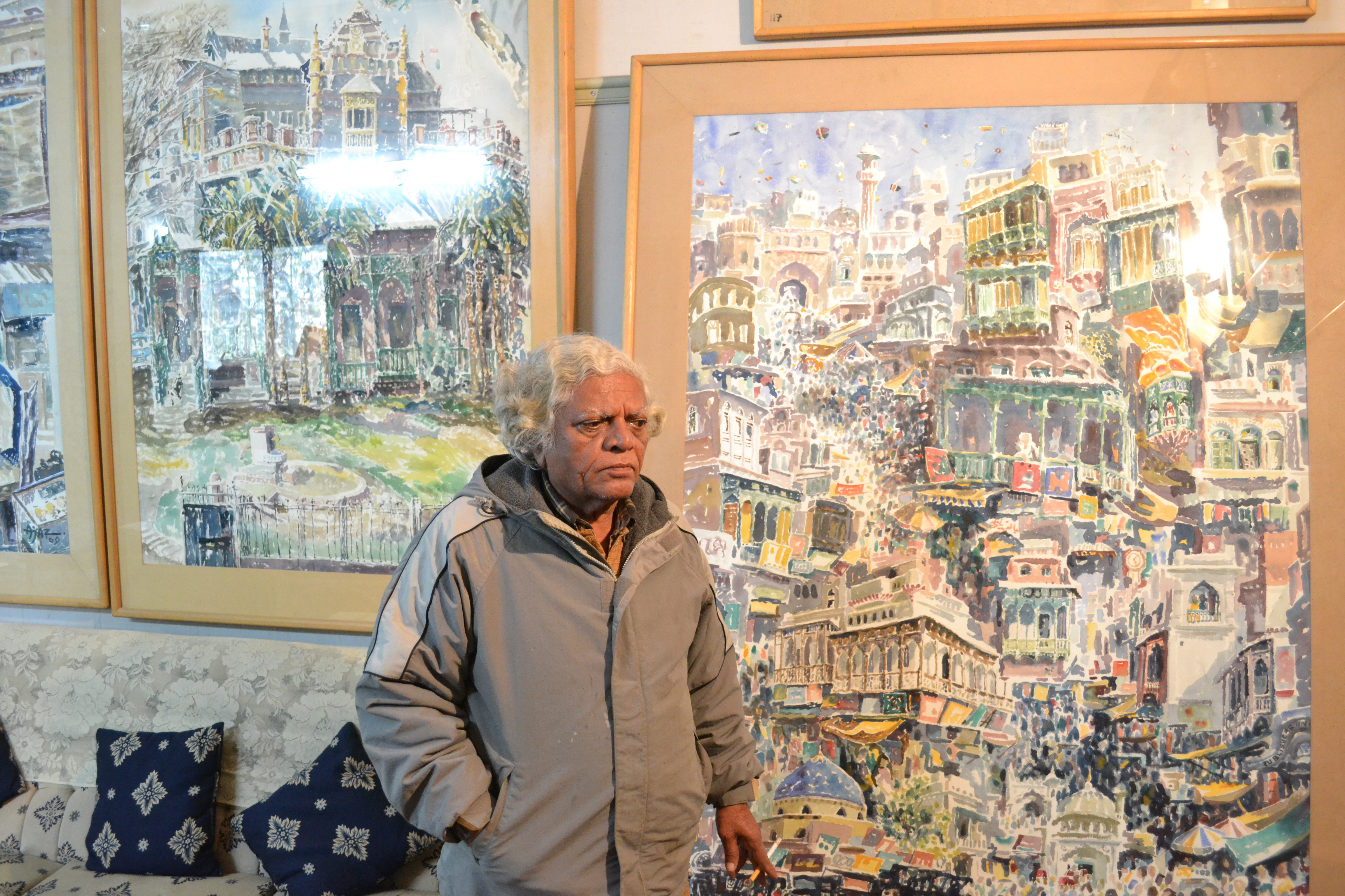 Ajaz Anwar in his home